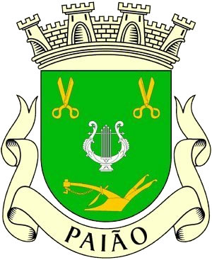 Brasão da Vila de Paião